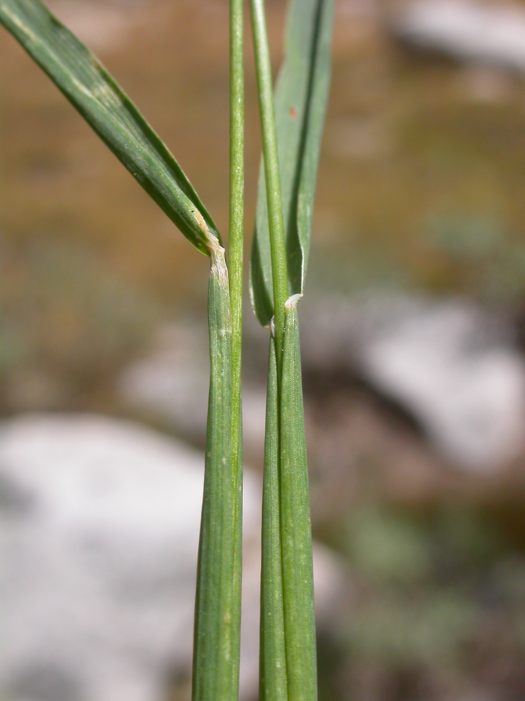 The inflated upper leaf sheath (the one that subtends the inflorescence) is diagnostic of this species.